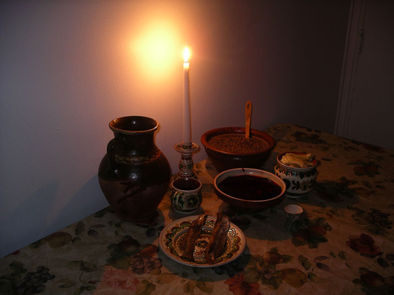 My own photo, 2005, Oleh Petriv.